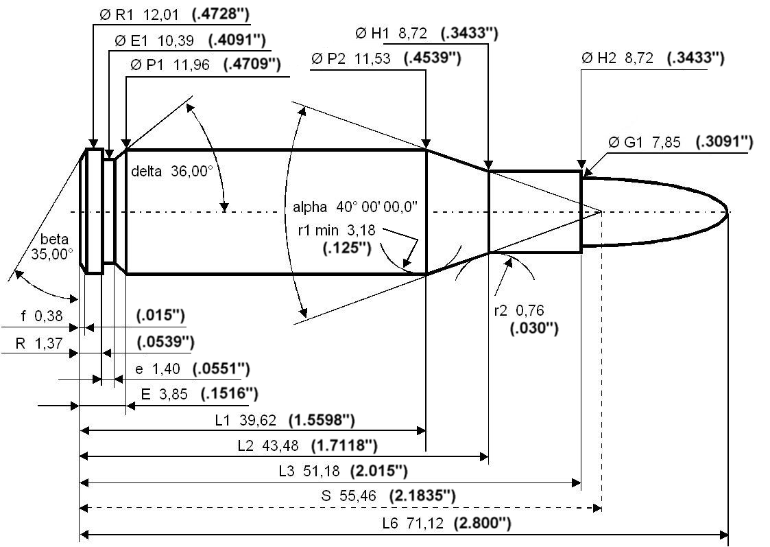 .308 Winchester maximum C.I.P. cartridge dimensions. All sizes in millimeters (mm) plus Imperial (inches).